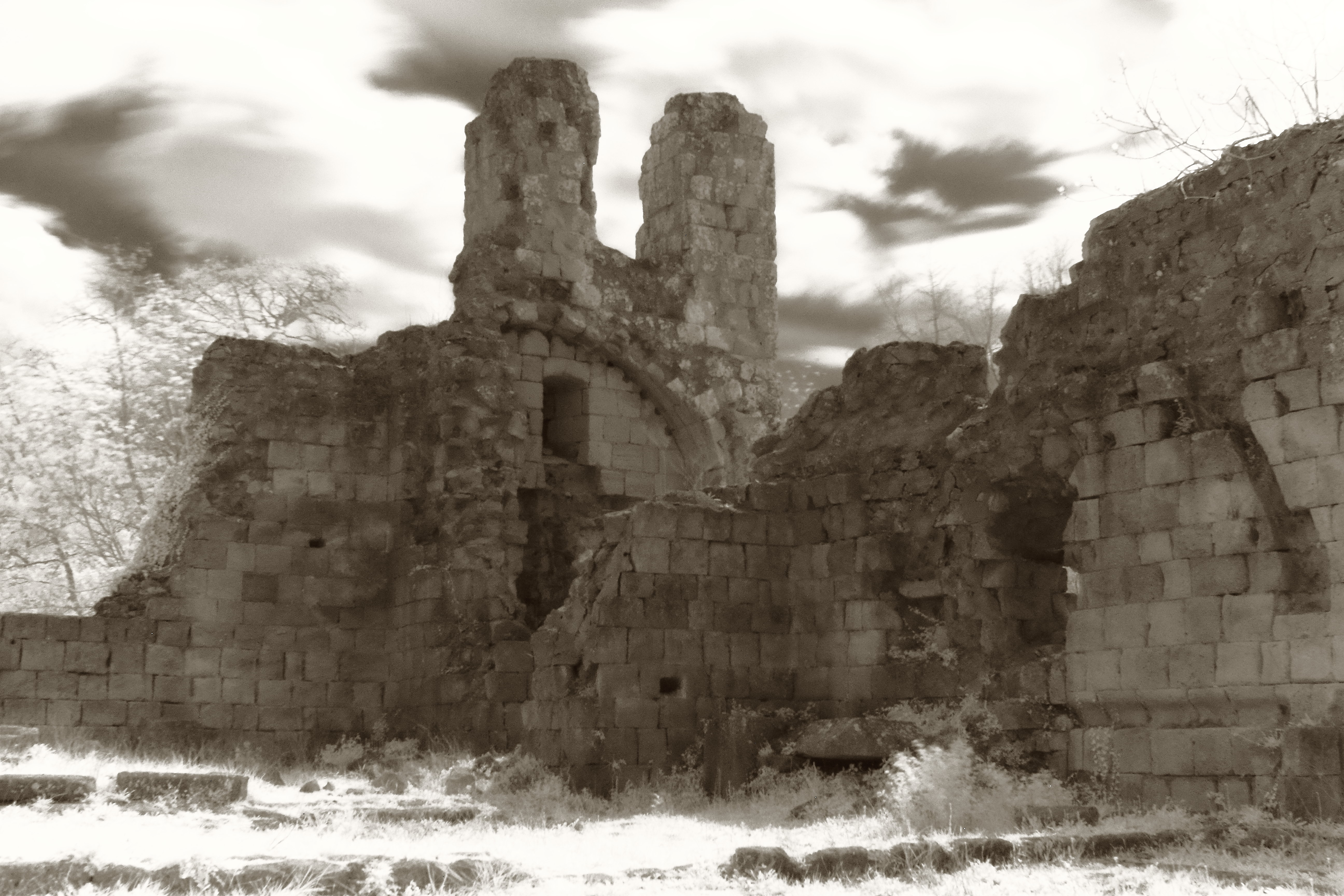 Religious building at Vitozza, Italy, a fiefdom dating from the 1100s